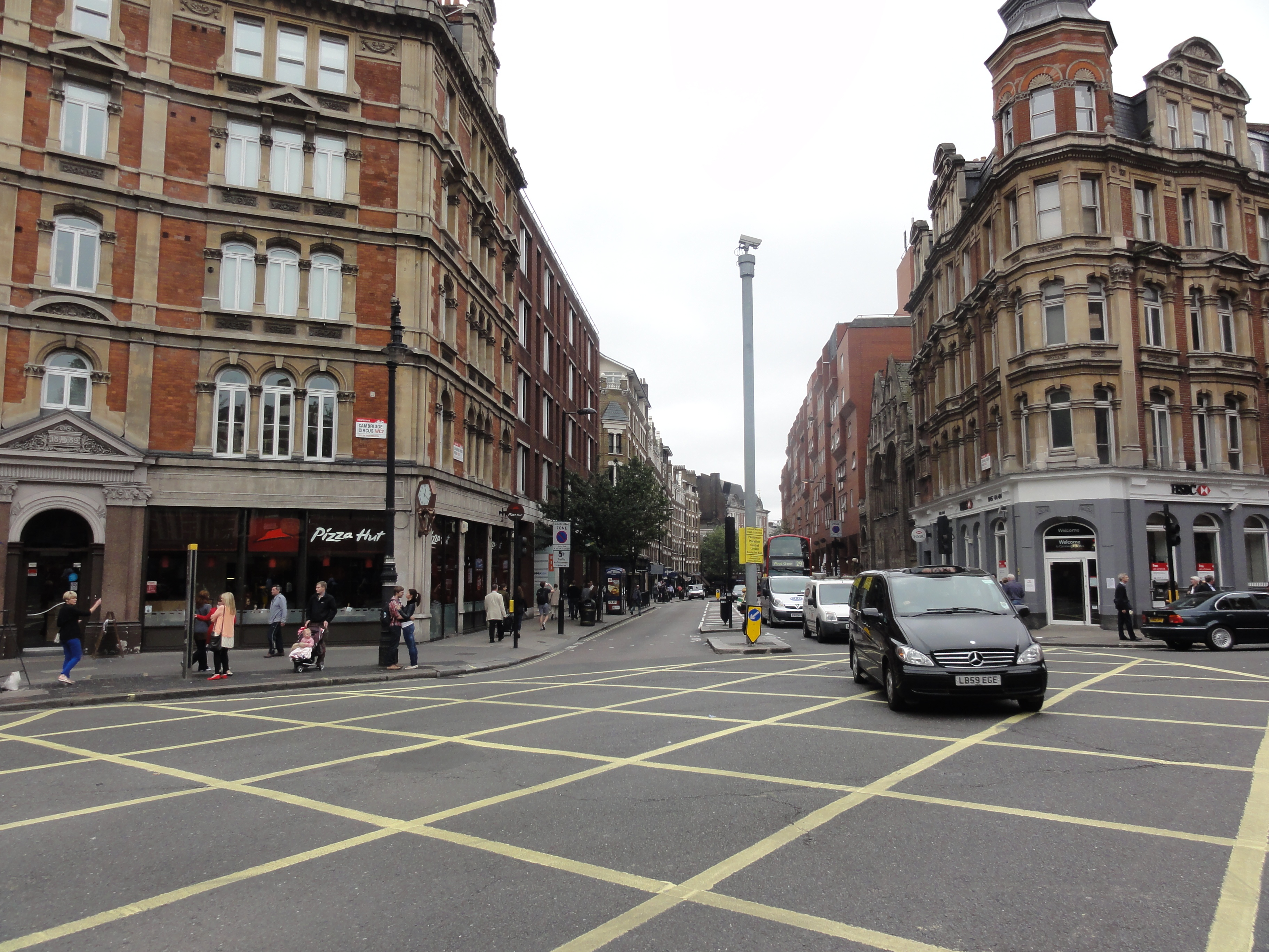 Standing in the traffic island at Cambridge Circus, looking across the traffic junction south down Charing Cross Road.